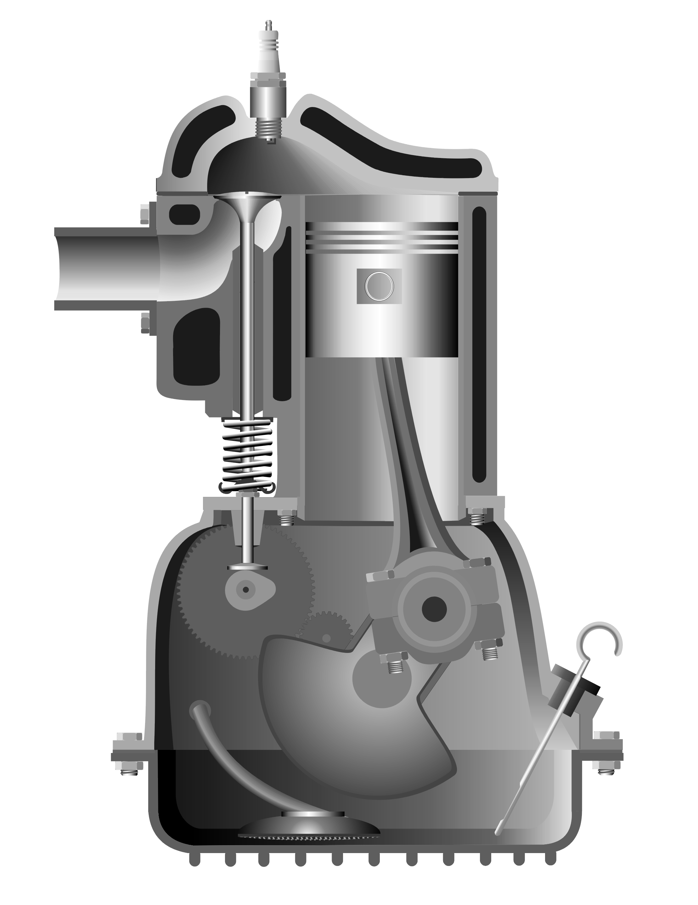 Diagram of four-stroke side-valve engine with Ricardo's turbulent cylinder head.